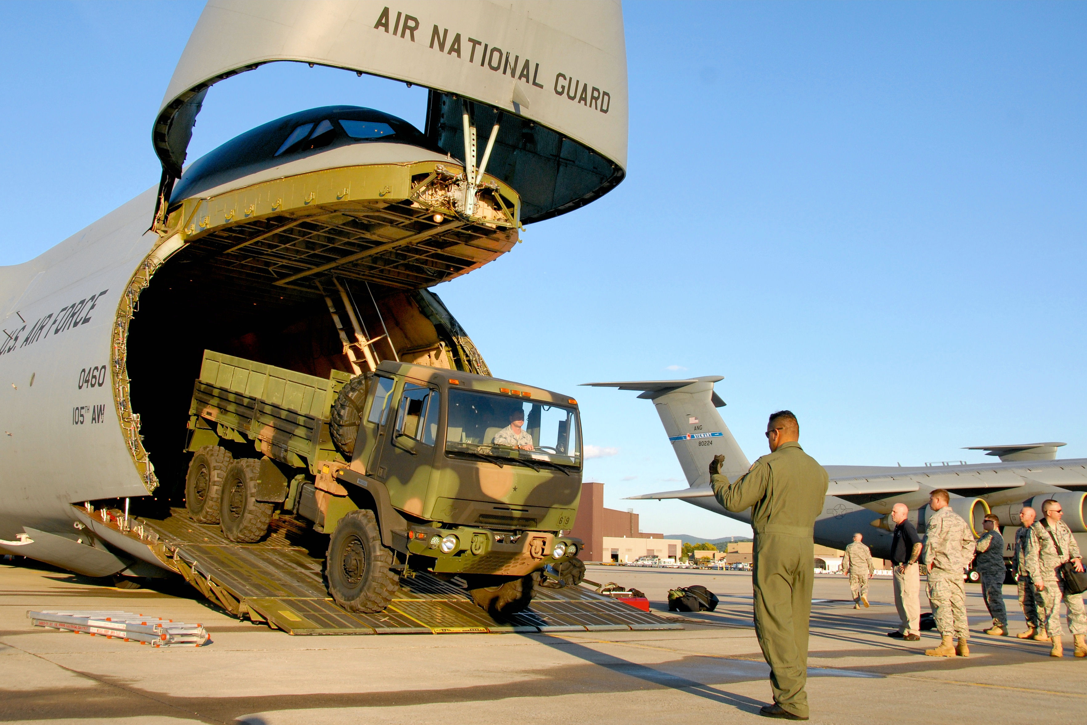 STEWART AIR NATIONAL GUARD BASE, N.Y. -Staff Sgt. Felix Moya, a loadmaster with the 137th Airlift Squadron of the 105th Airlift Wing here, directs vehicles unloading from a C5A Galaxy Sept. 14. The one day mission was to support 105th Security Forces Squadron picking up members and equipment of the 820th SFS from Moody Air Force Base, Ga. to conduct training here during the drill weekend in preparation of upcoming deployments. (U.S. Air Force photo by Senior Airman Jonathan Young.)